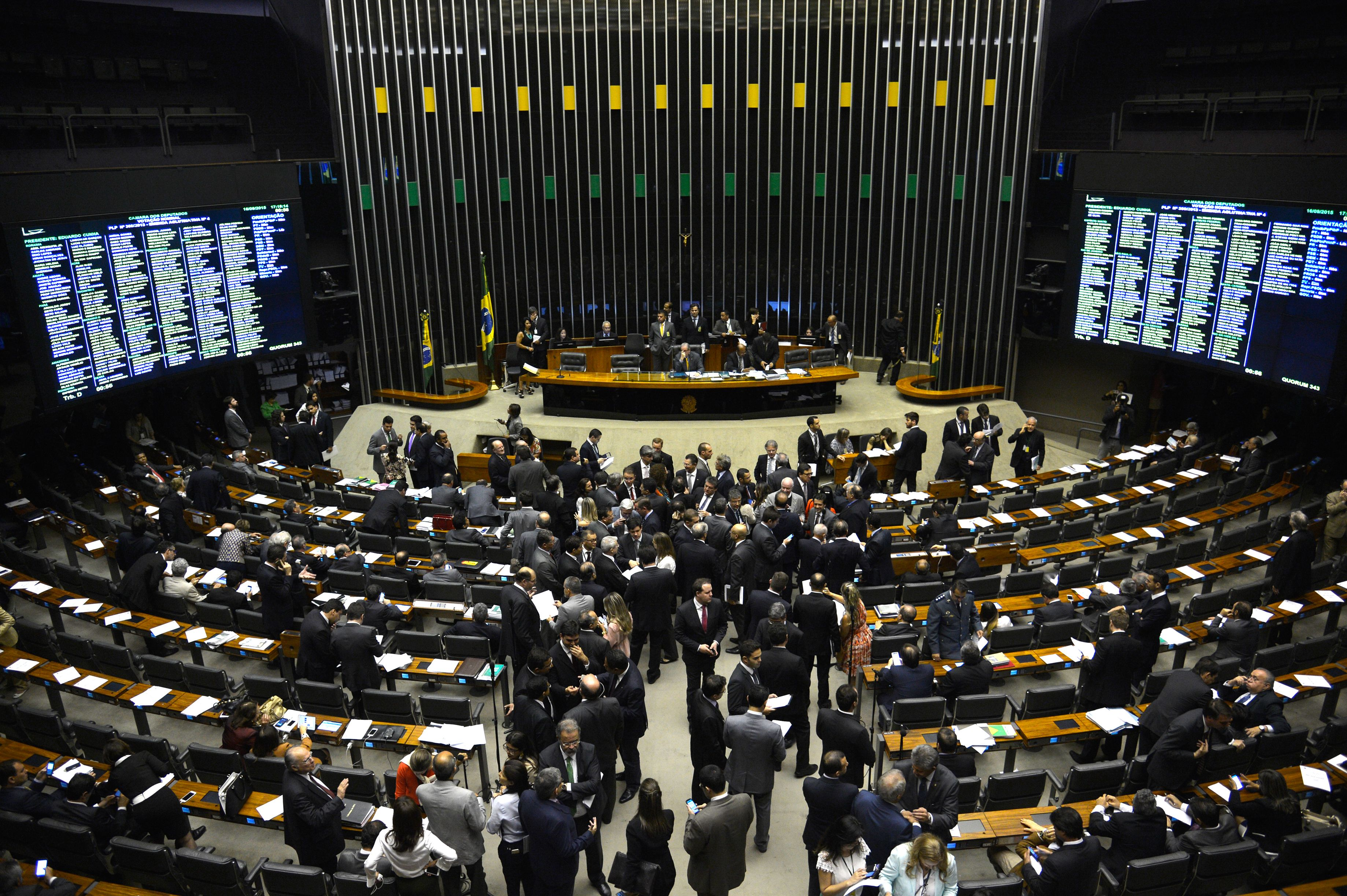 Ulysses Guimarães Chamber, meeting place of the Chamber of Deputies of Brazil